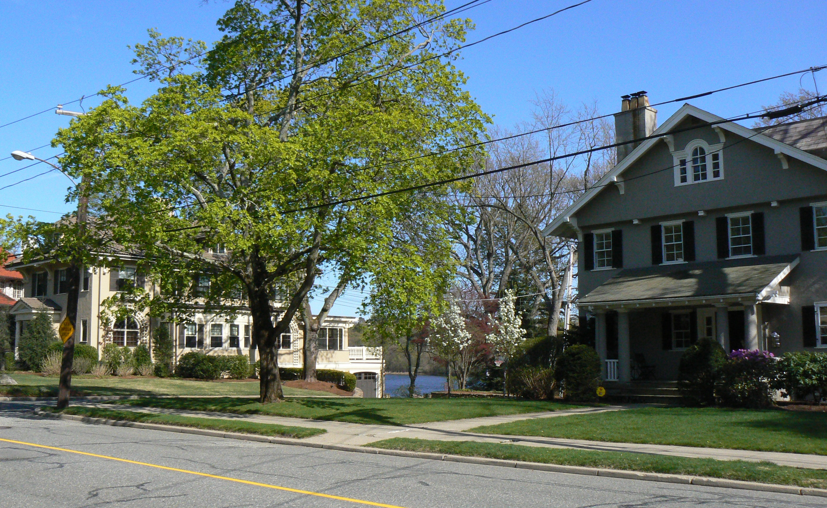 Everett Avenue and Niles Lane (with the Upper Mystic Lake visible in the background) in the Everett Avenue-Sheffield Road Historic District in Winchester, Massachusetts.